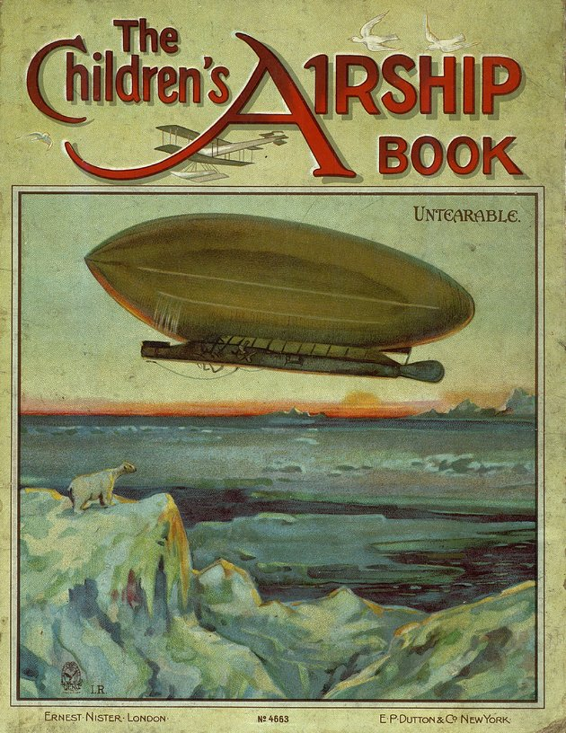 Ernest Nister, The Children's Airship book, 1900 : cover.